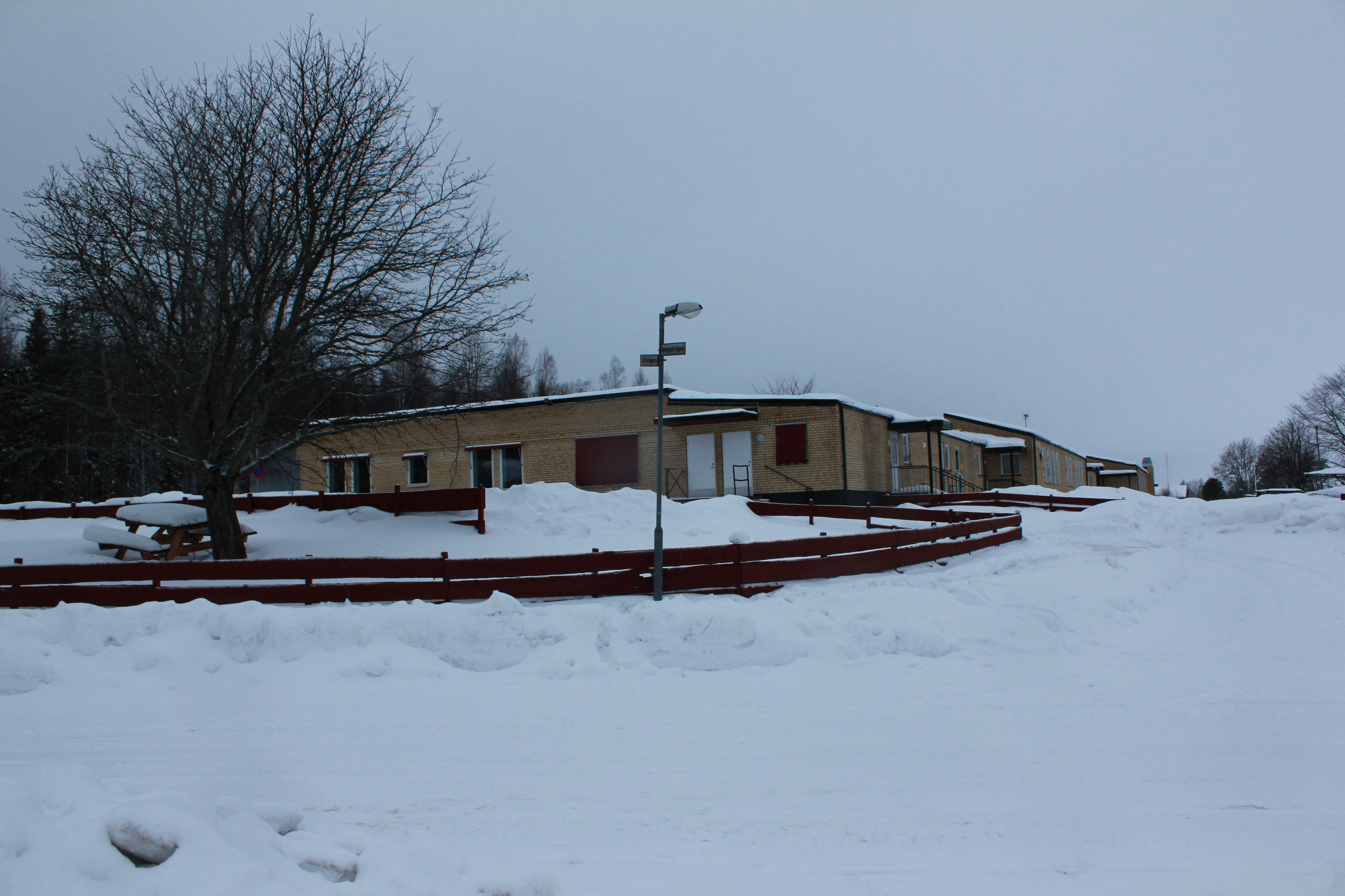 School "Olympicaskolan" in former "Lillgården", an institution for retarded children. Hedemora, Dalarna, Sweden.